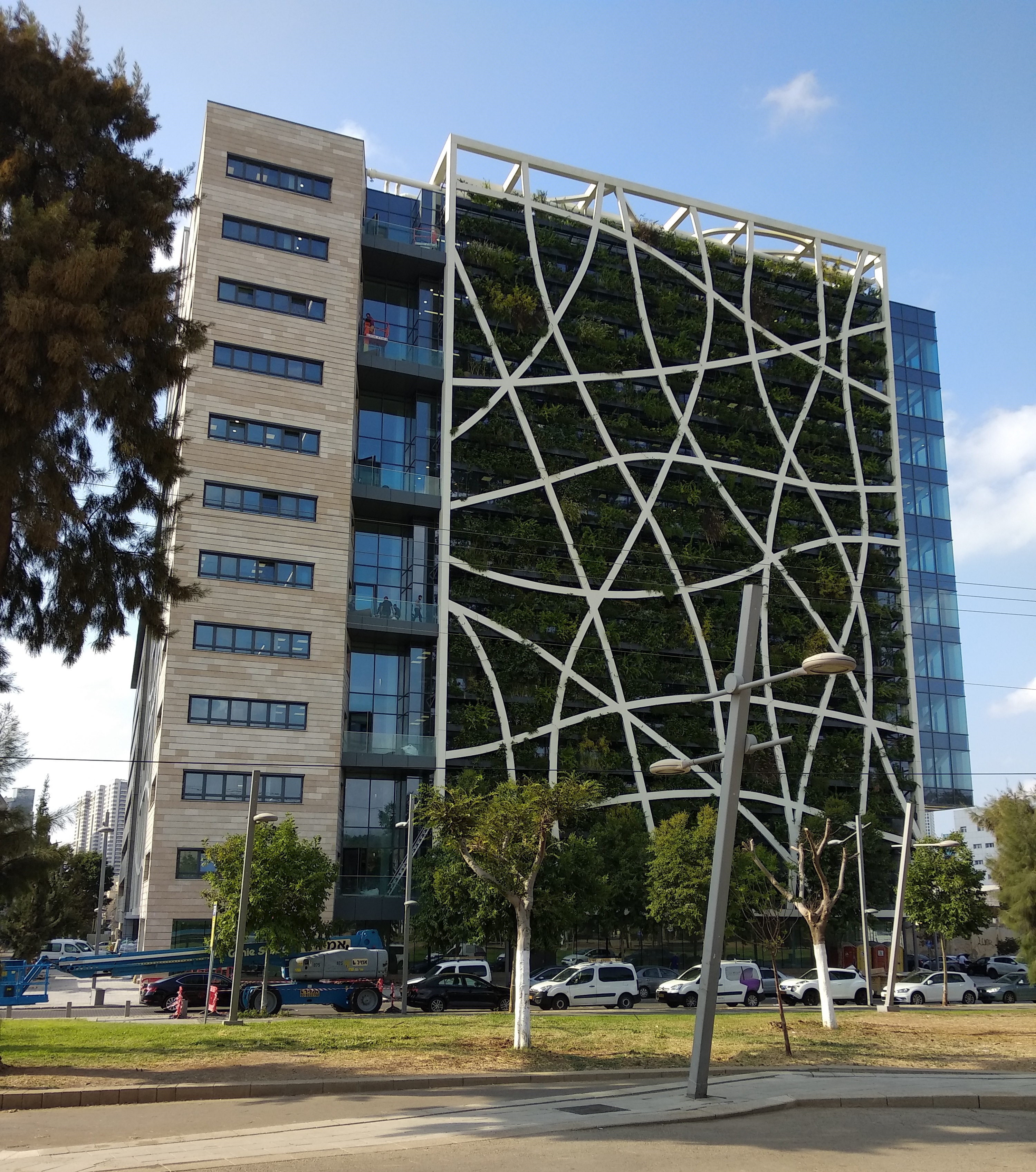 Green wall at Check Point HQ new wing, Tel Aviv